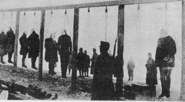 Austria-Hungarian soldiers carried out executions in Montenegro